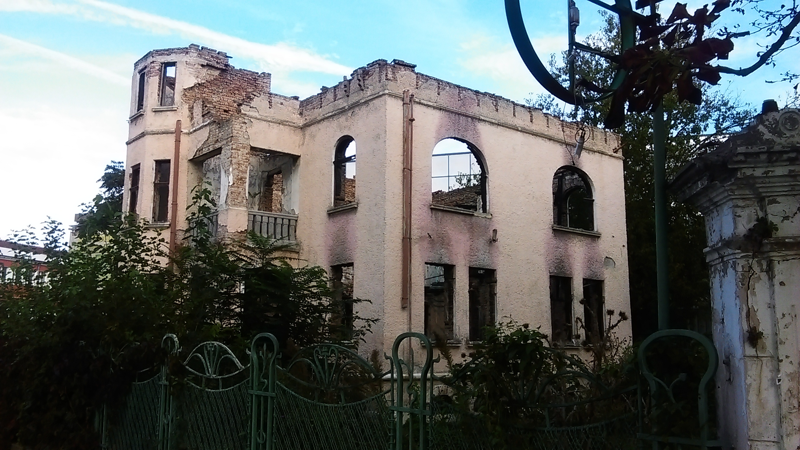 Home of Ekaterina and Dimitar Bachvarovi in Razgrad, main sponsors of the Musical house.